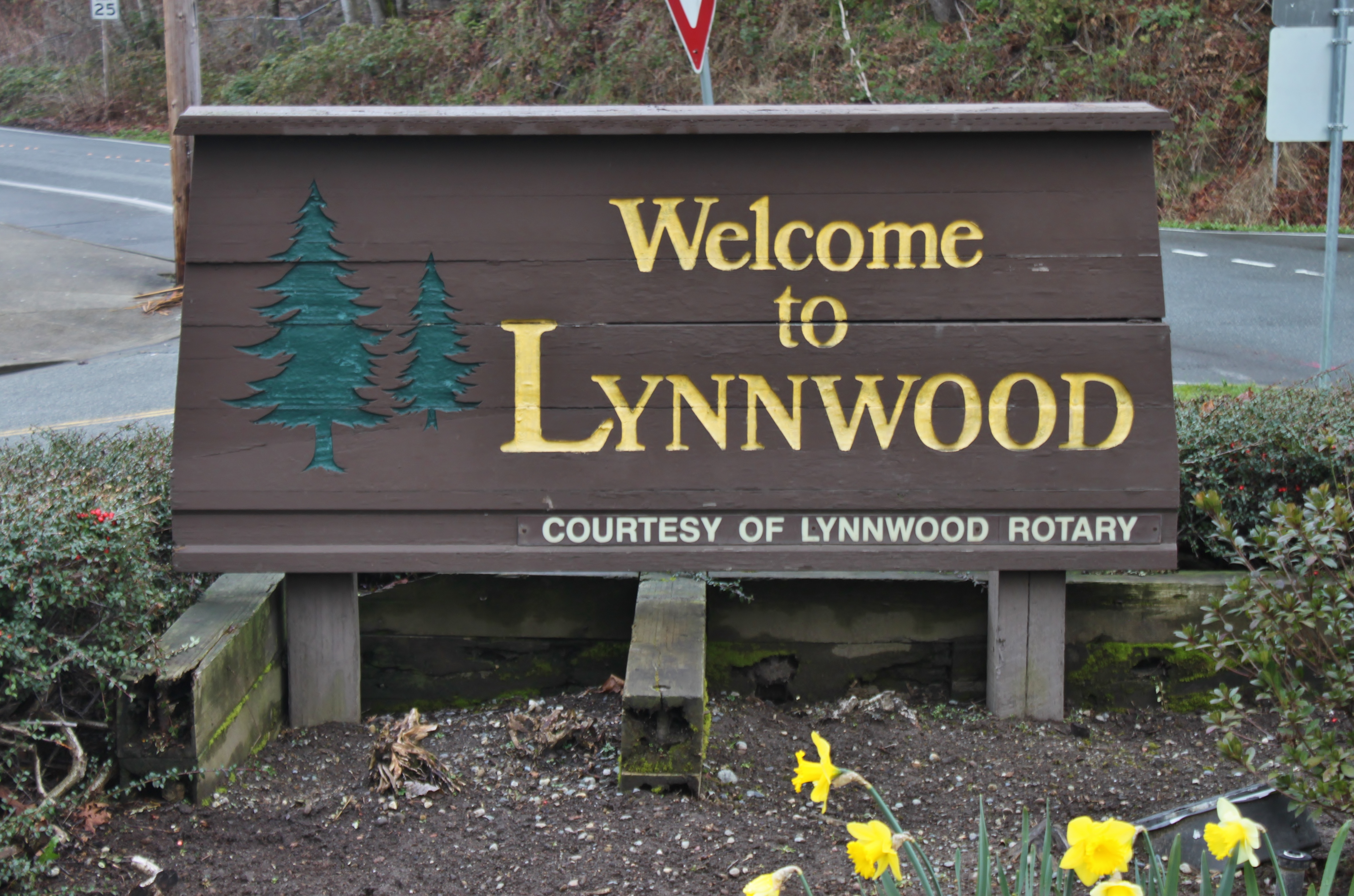 A welcome sign in northern Lynnwood, Washington.